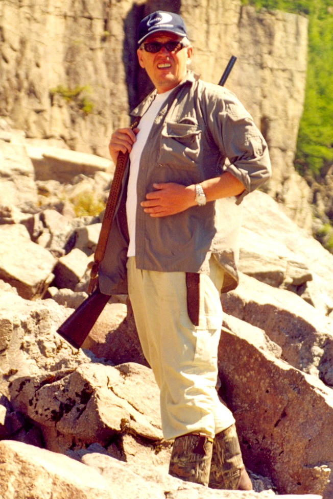 Russian editor